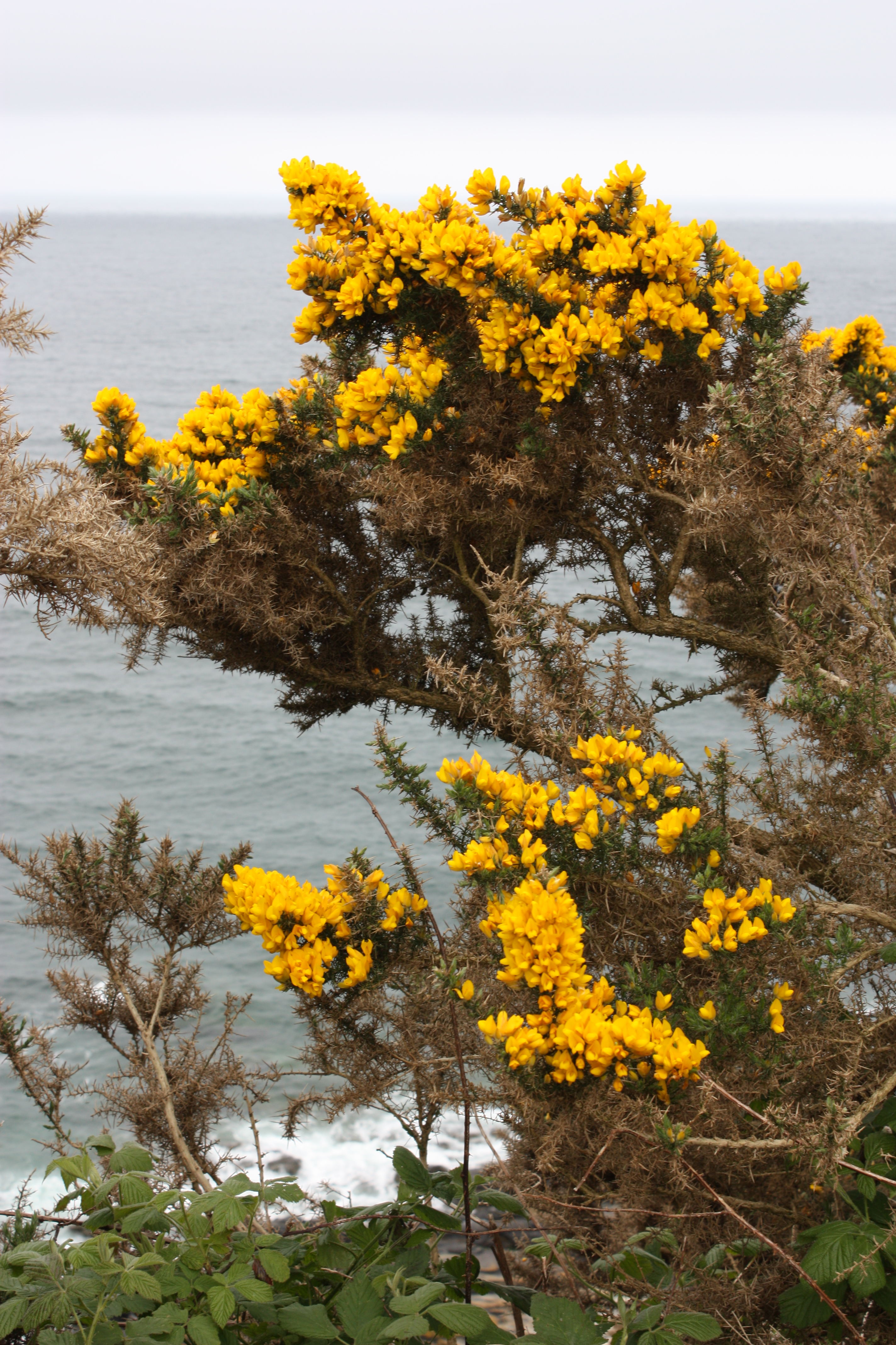 Gorse above car park, Bloody Bridge, Kilkeel Road, Newcastle, County Down, Northern Ireland, May 2010